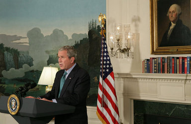 President George W. Bush delivers a statement at the White House Tuesday, Sept. 30, 2008, regarding the economic rescue plan. From